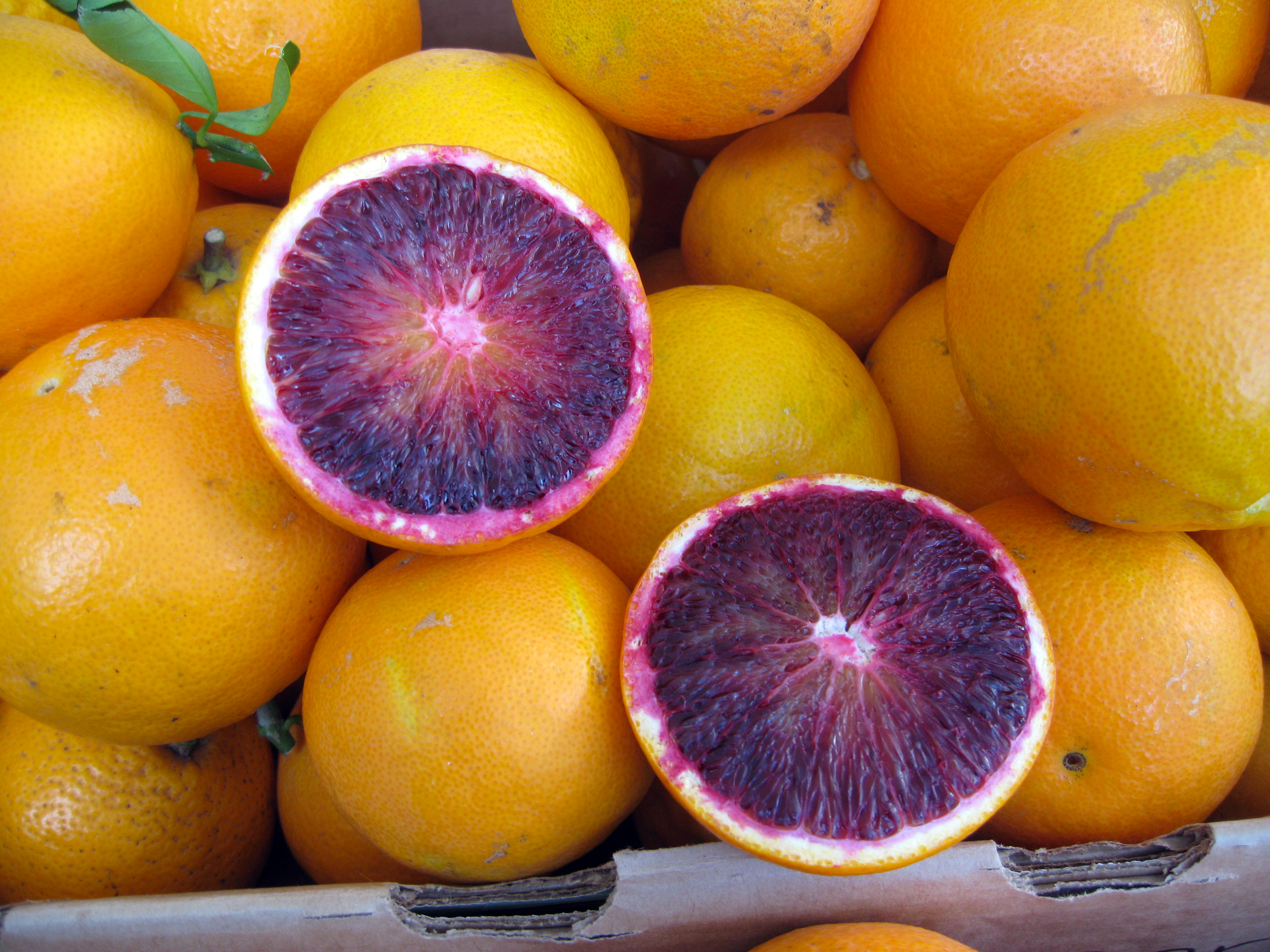 Blood oranges, sliced, farmers' market in San Francisco